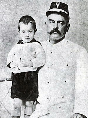 Rudolph and Norman John Mac Leod